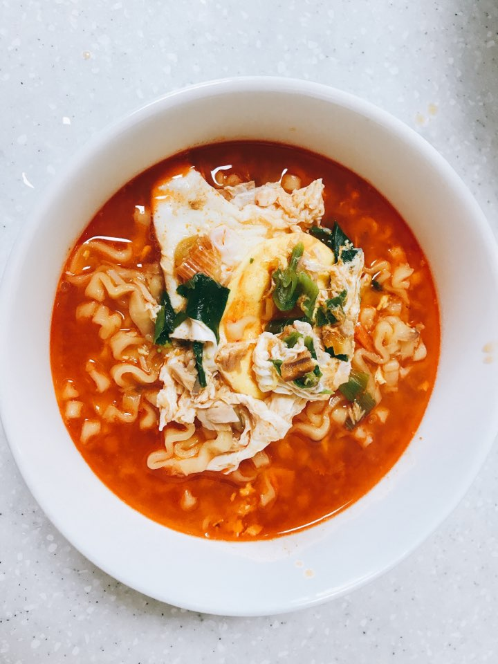 Ramyon in Republic of Korea